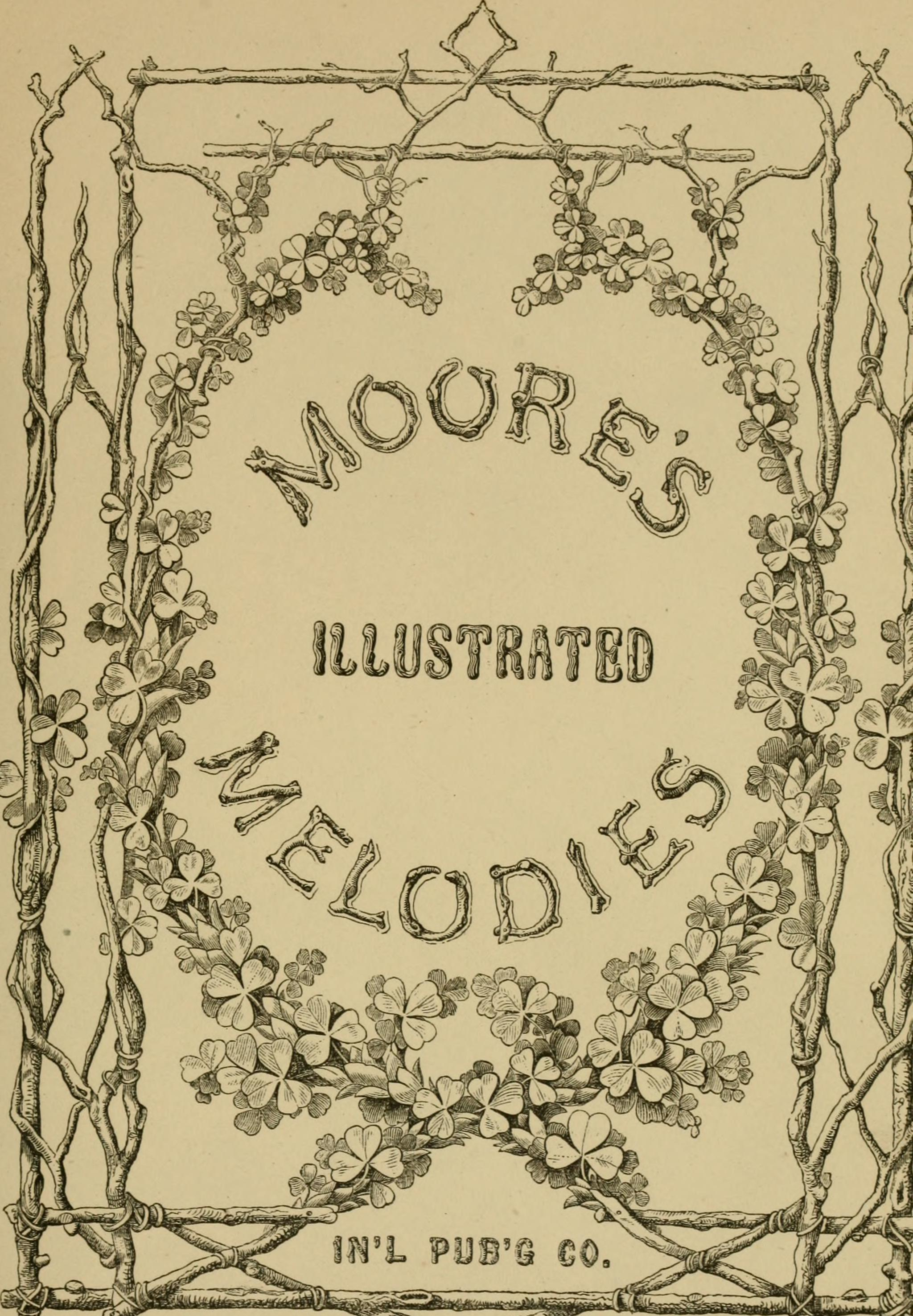 Title: Literature, art and song: Moore's melodies and American poems; Year: 1872 (1870s) Authors: Moore, Thomas, 1779-1852 Mackenzie, R. Shelton (Robert Shelton), 1809-1880 Stevenson, John Andrew, Sir 1760?-1833 Maclise, Daniel, 1806-1870, illus Riches, William, joint illus Subjects: Publisher: New York, International publishing company Text Appearing Before Image: asthe wind to the sleeping harp, and all the wild sweetnessI waked was its own. I shall only add, that I deem it most fortunate for thisnew Edition that the rich, imaginative powers of Mr. Maclisehave been employed in its adornment; and that, to completeits national character, an Irish pencil has lent its aid to anIrish pen in rendering due honour and homage to ourcountrys ancient harp. THOMAS MOORE. 22 Text Appearing After Image: '